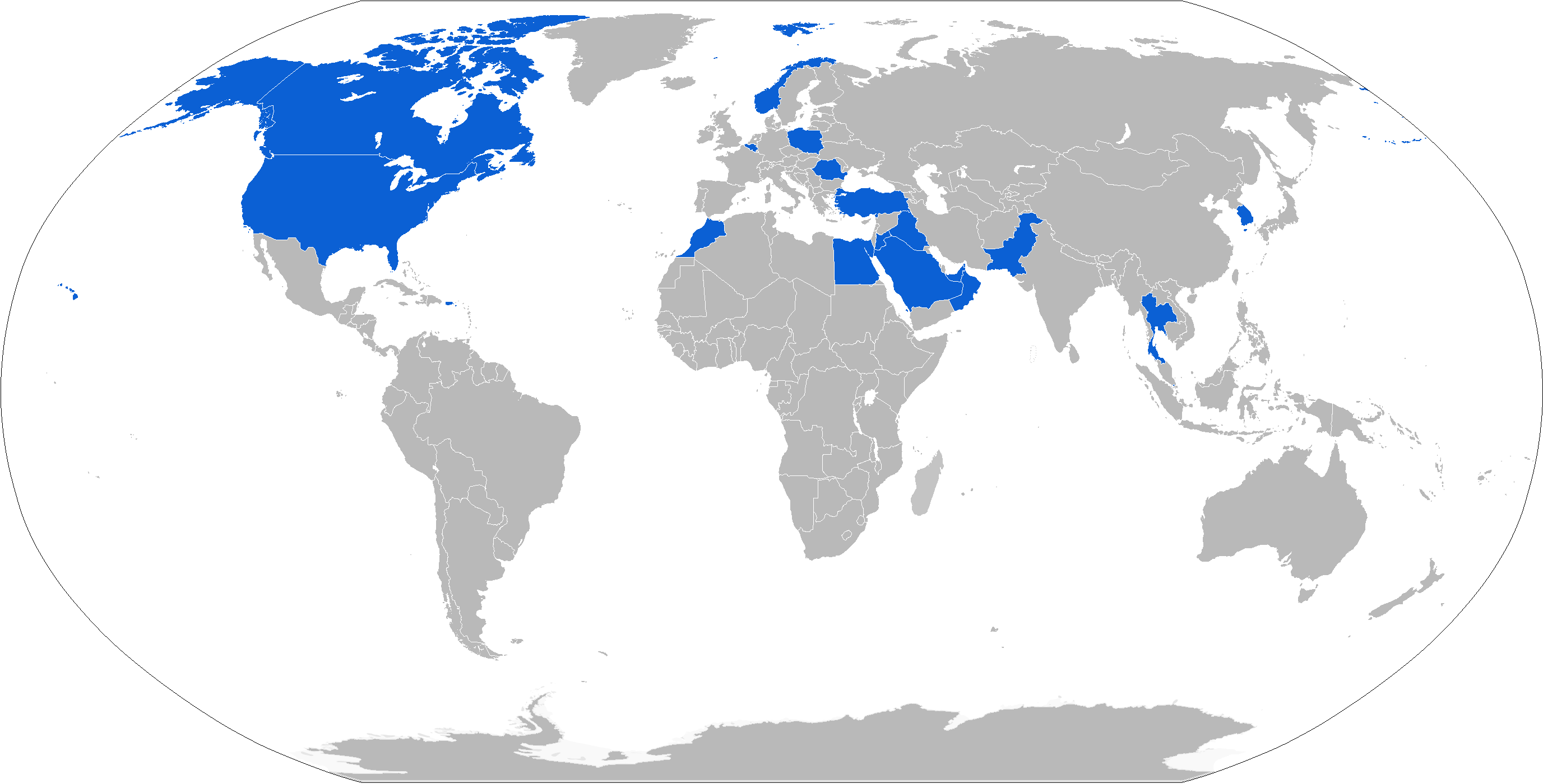 Map with SATP operators in blue